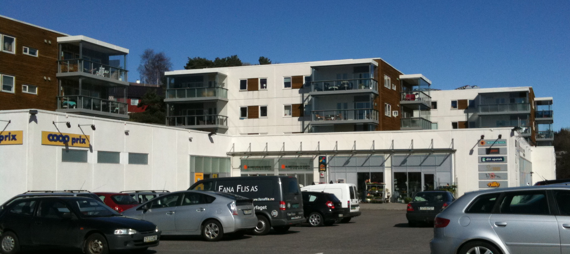 Blomsterdalen senter, a shopping centre in Bergen, Norway